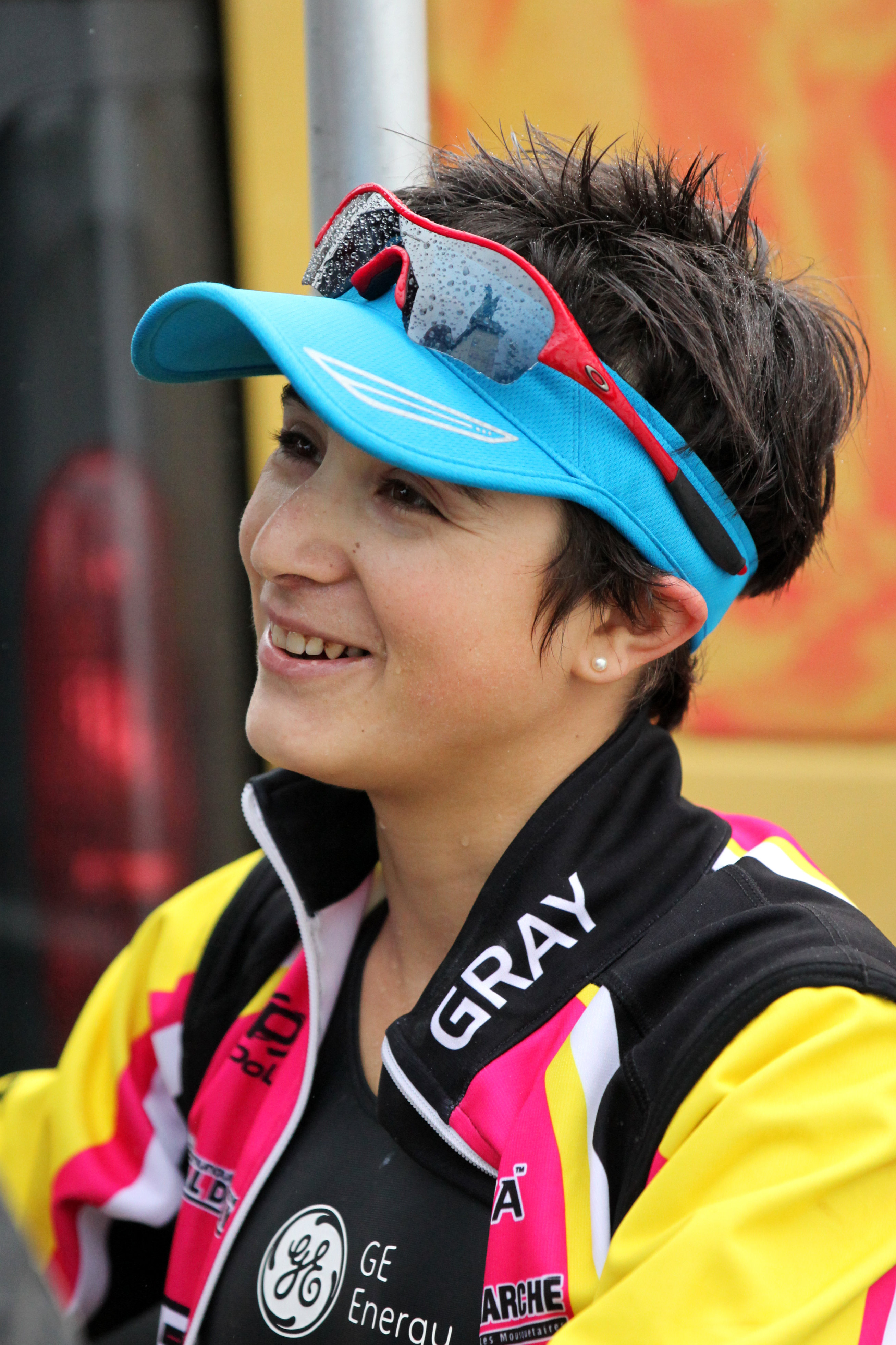 Bárbara Riveros after the French Club Championship Series triathlon (Grand Prix de Triathlon Lyonnaise des Eaux) in Paris, 2011.